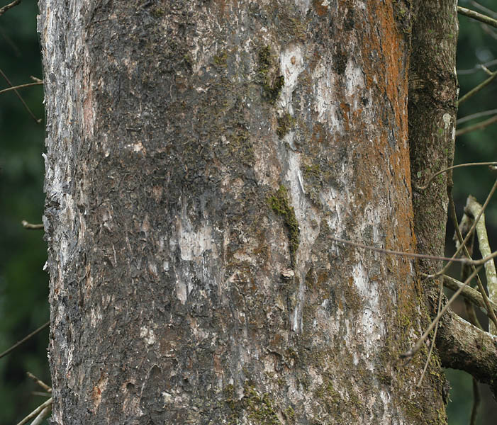 Description corrected as Terminalia bellirica at Jayanti in Buxa Tiger Reserve in Jalpaiguri district of West Bengal, India.